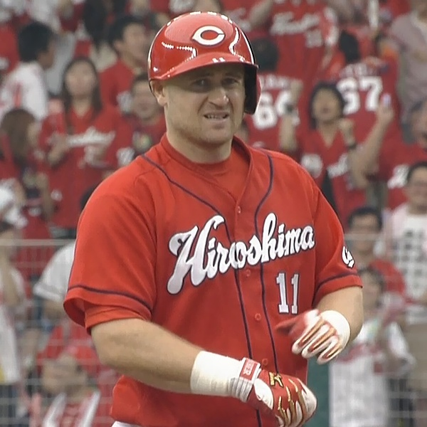 Justin Huber, infielder of the Hiroshima Toyo Carp.